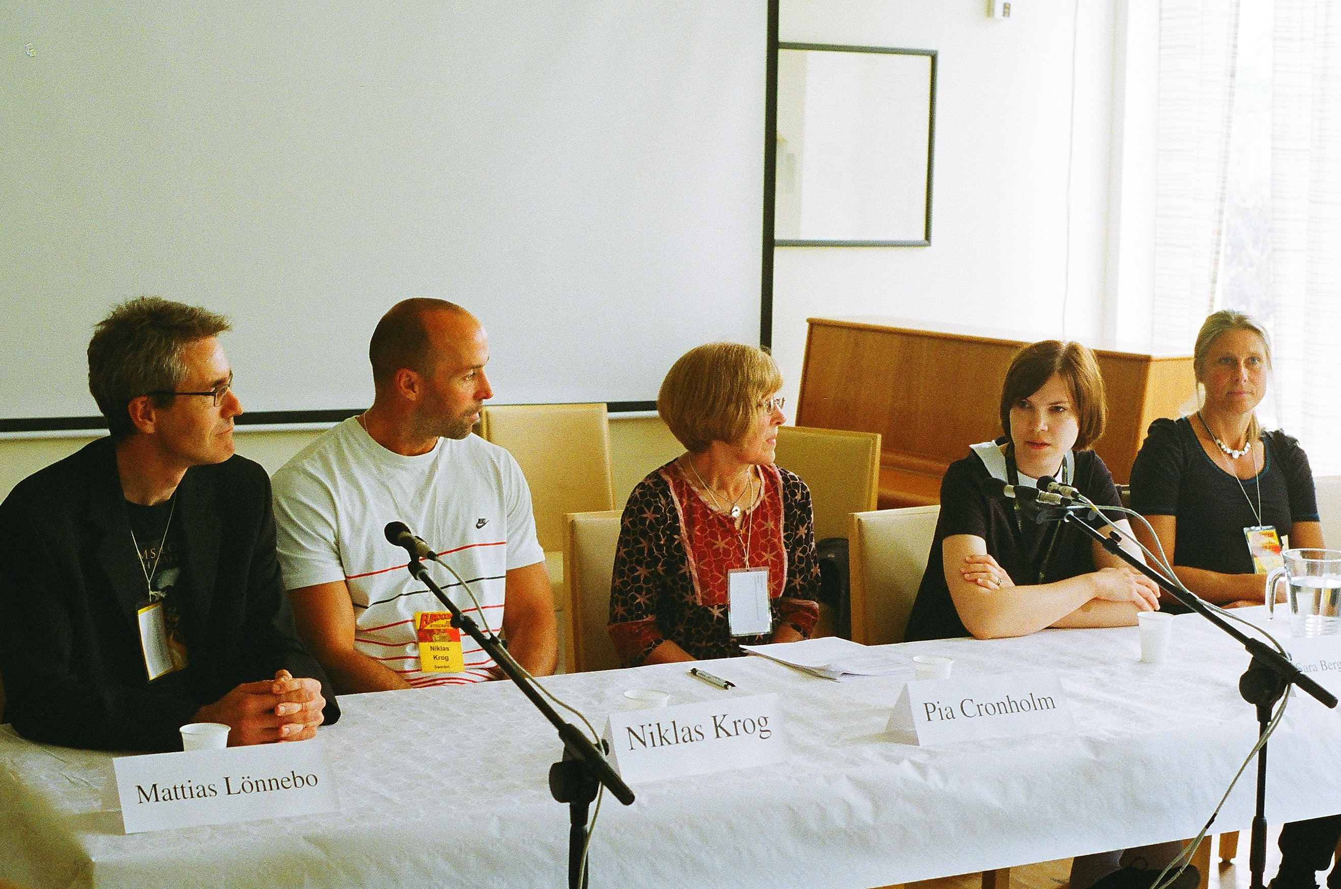 Eurocon 2011. From left: Mattias Lönnebo, Niklas Krog, Pia Cronholm, Sara Bergmark Elfgren, and Lotta Olivercrona